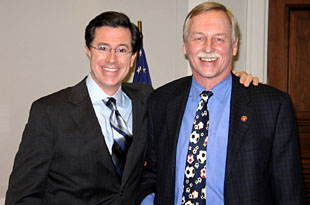 Congressman Vic Snyder with comedian Stephen Colbert. From his congressional website This work is in the public domain in the United States because it is a work prepared by an officer or employee of the United States Government as part of that person’s official duties under the terms of Title 17, Chapter 1, Section 105 of the US Code. See Copyright. Note: This only applies to original works of the Federal Government and not to the work of any individual U.S. state, territory, commonwealth, county, municipality, or any other subdivision. This template also does not apply to postage stamp designs published by the United States Postal Service since 1978. (See § 313.6(C)(1) of Compendium of U.S. Copyright Office Practices). It also does not apply to certain US coins; see The US Mint Terms of Use. This file has been identified as being free of known restrictions under copyright law, including all related and neighboring rights.